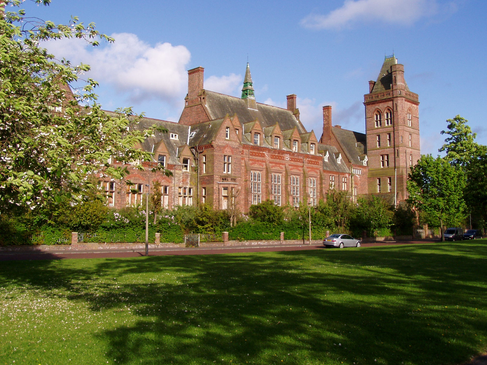 Newsham Park Hospital